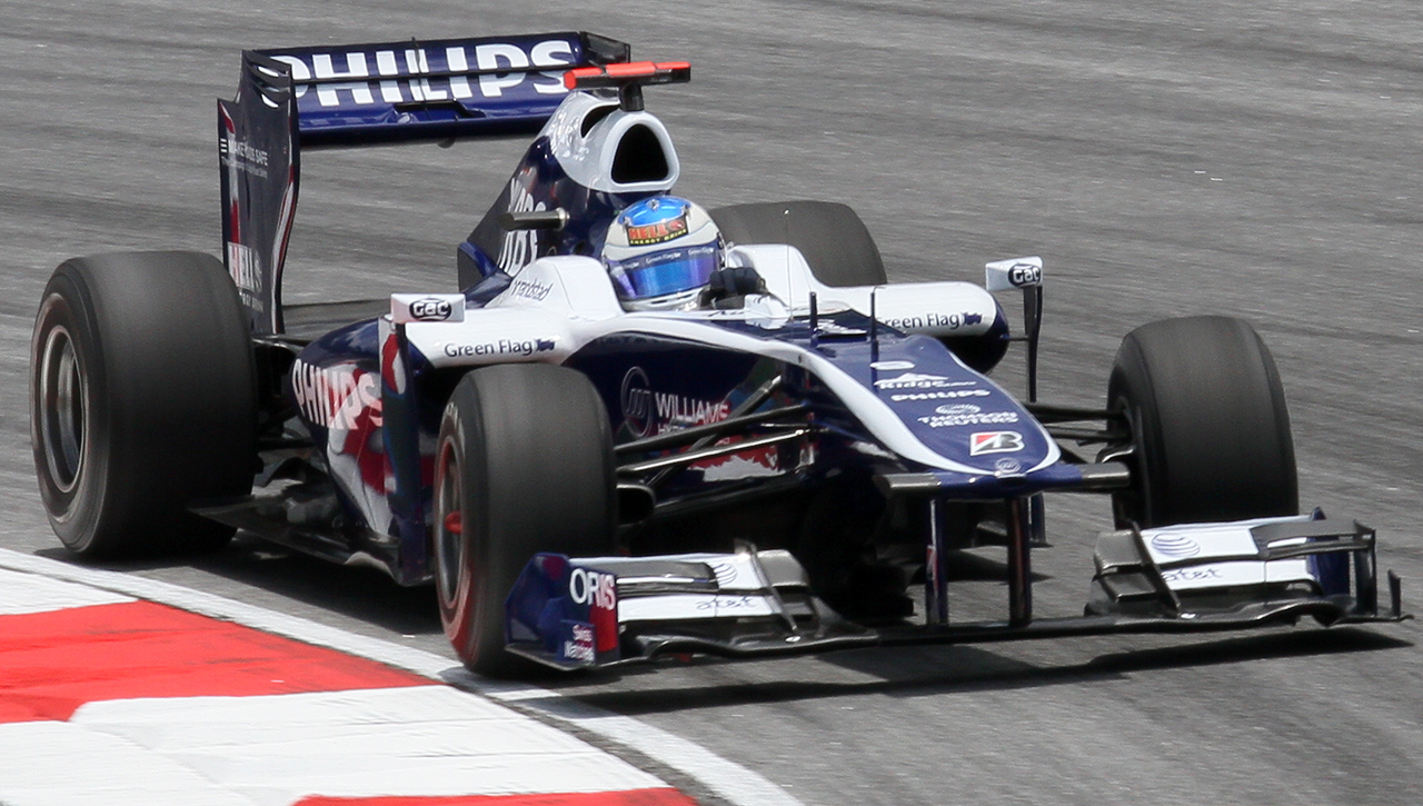 Formula One 2010 Rd.3 Malaysian GP: Rubens Barrichello (Williams) during Saturday 3rd Free Practice session.